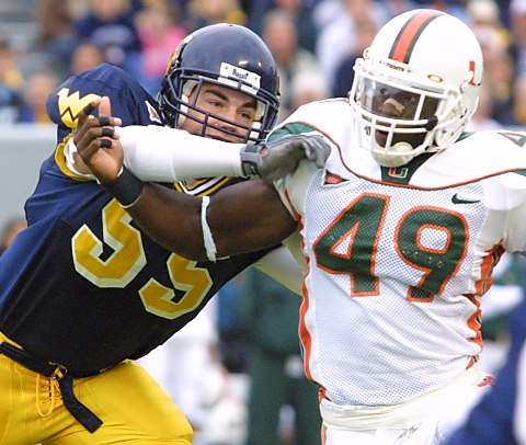 Miami hurricanes Darrell McClover